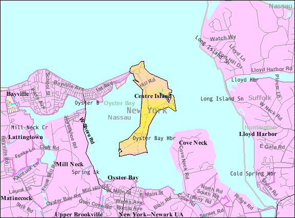 U.S. Census 2000 reference map for Centre Island, New York